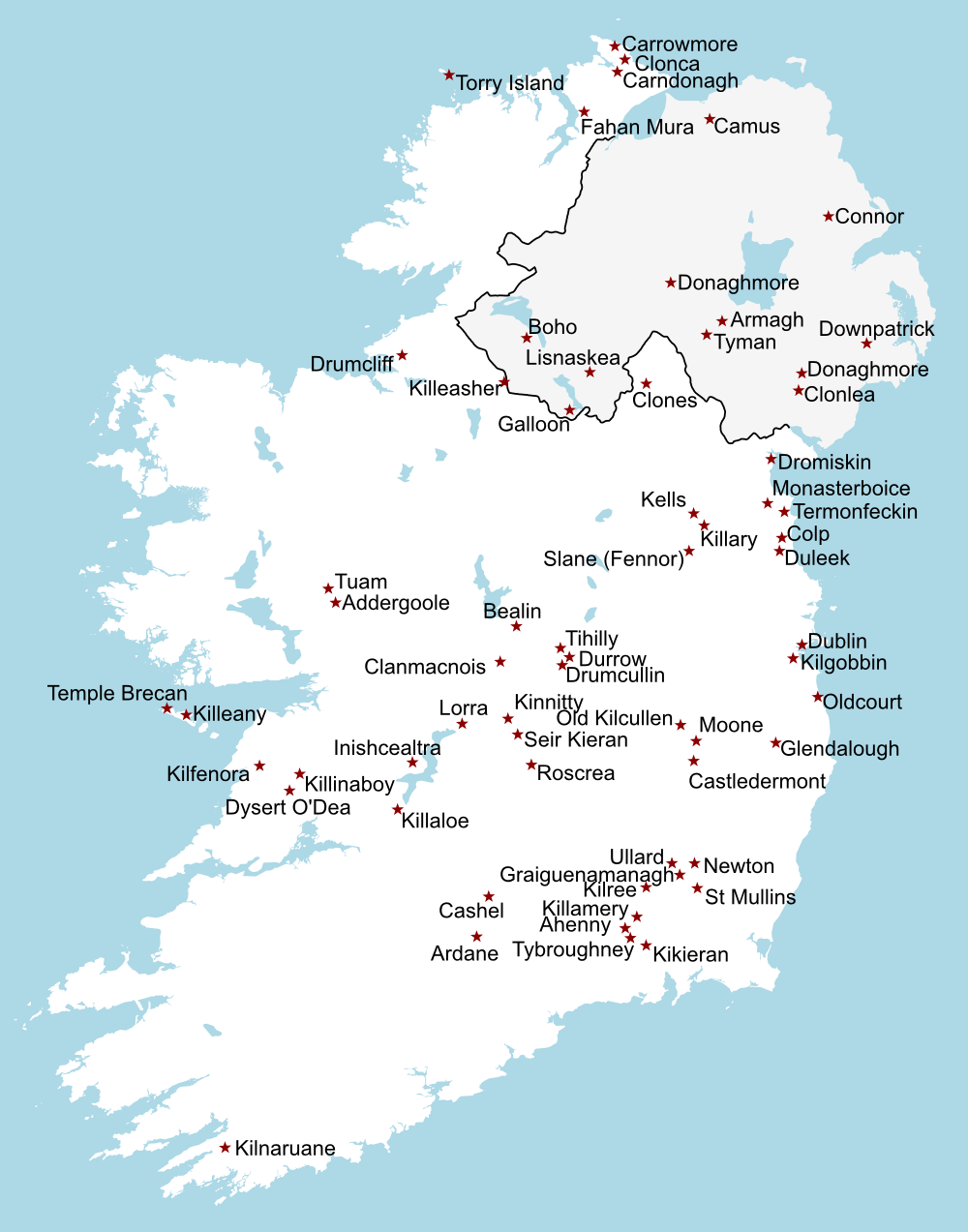 Map illustrating the locations of existing High Crosses in Ireland (Rep of Ireland and Northern Ireland). I based this map off of the one shown here, which cites: "Harbison, Peter. Irish high crosses : with the figure sculptures explained. Illustrations by Hilary Gilmore. Drogheda : Boyne Valley Honey Company ; [Syracuse : Distributed by Syracuse University Press], 1994".